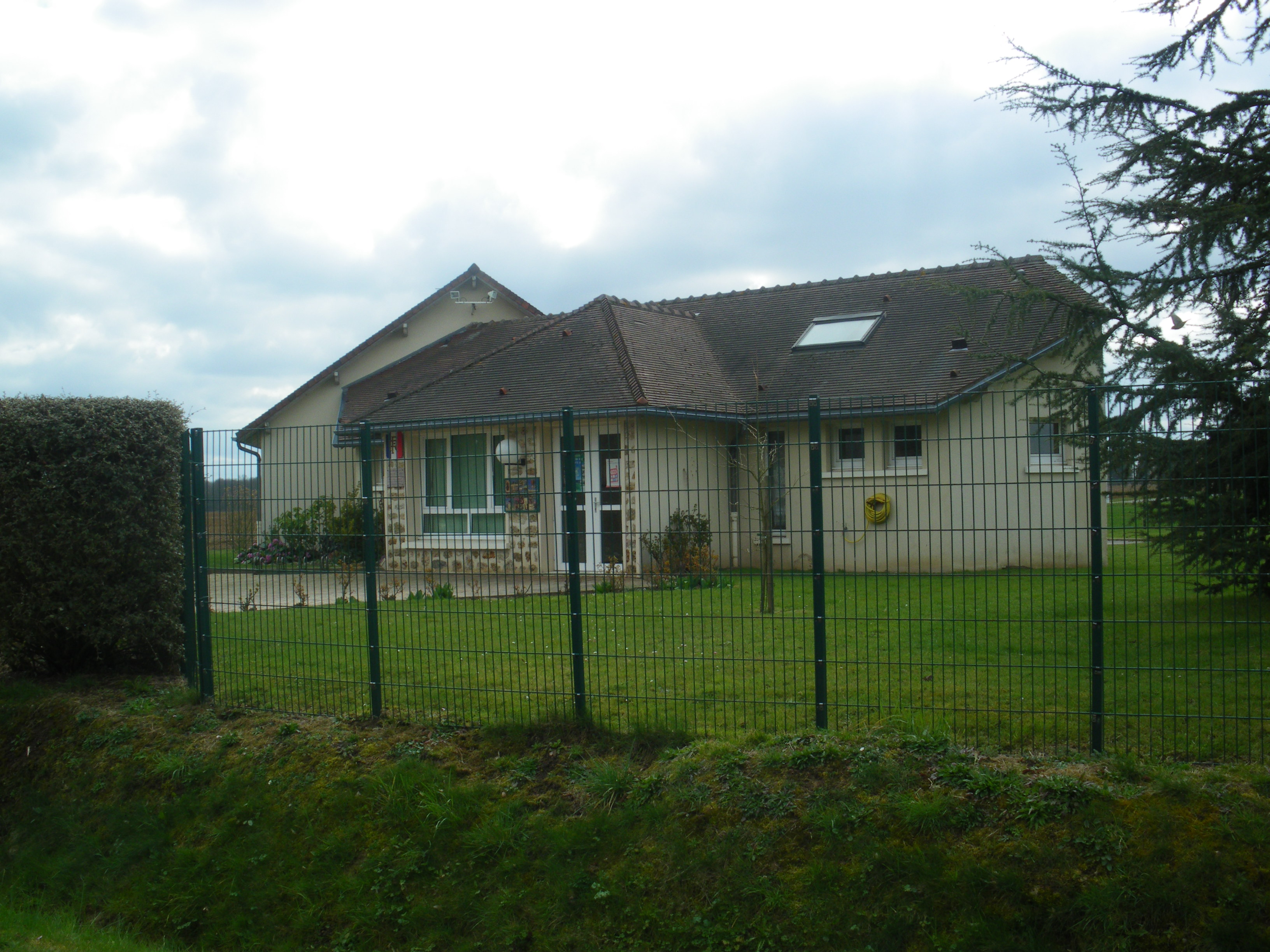 Saint Jean de Beauregard school, Essonne, France